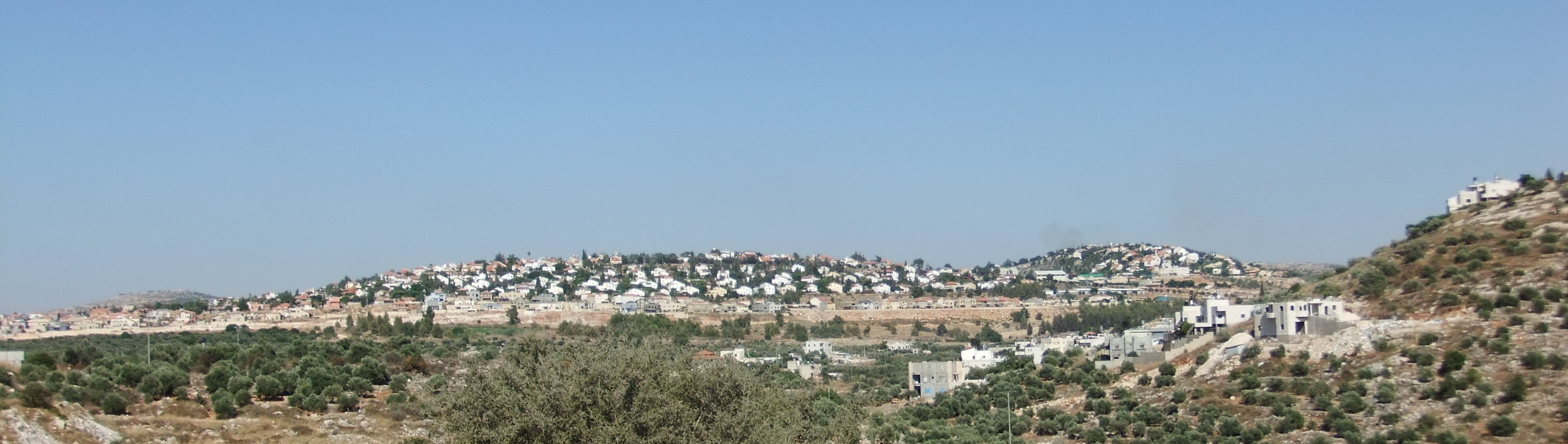 Beit Aryeh from the west